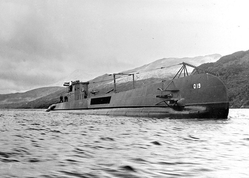 HNLMS O 19 at Holy Loch in 1943